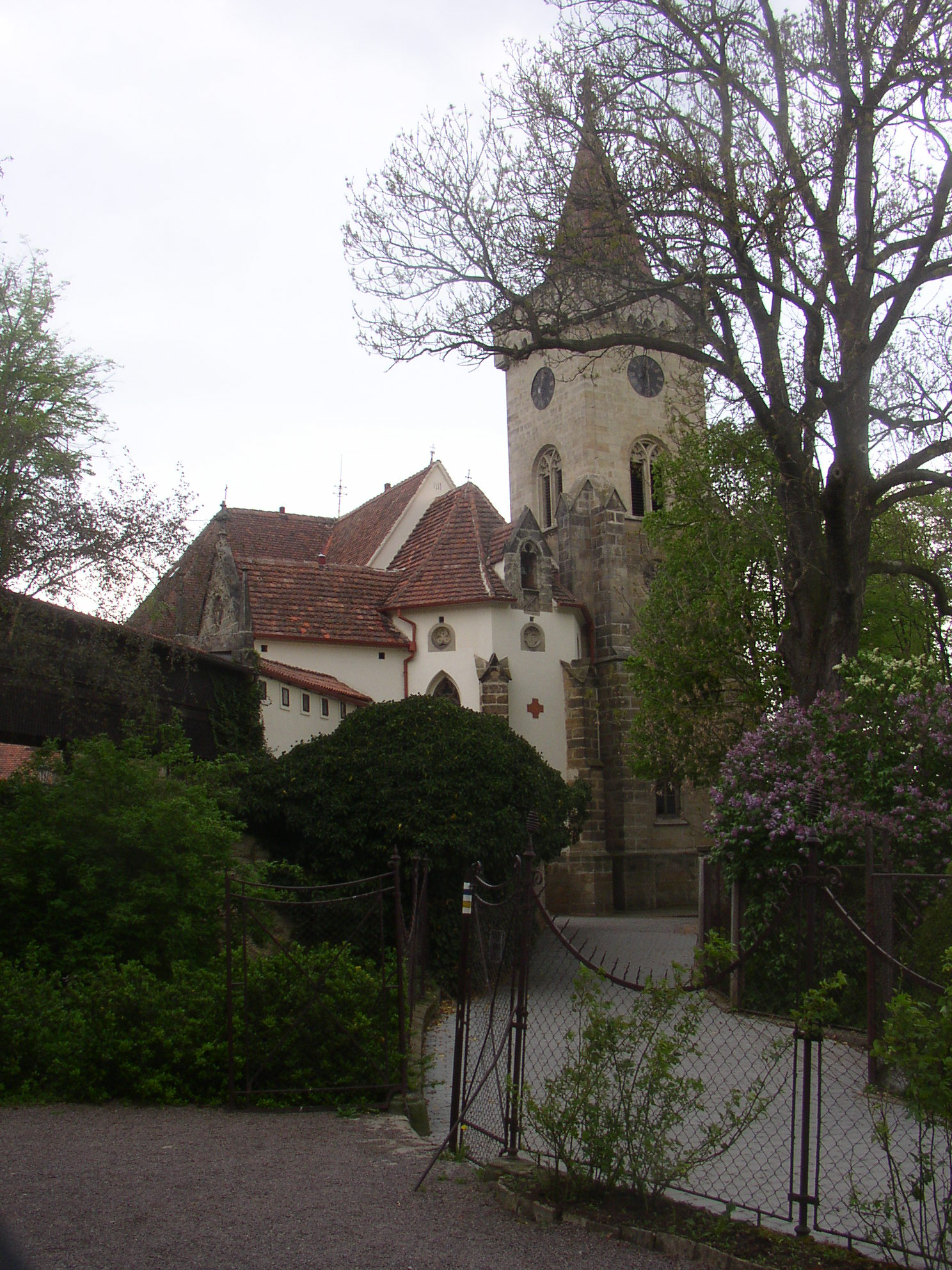 St Martin Church in Slatiňany, Chrudim District, Czech Republic. Is current shape dates from 1892 reconstruction in style of Gothic Revival designed by František Schmoranz. A view from the southeast.